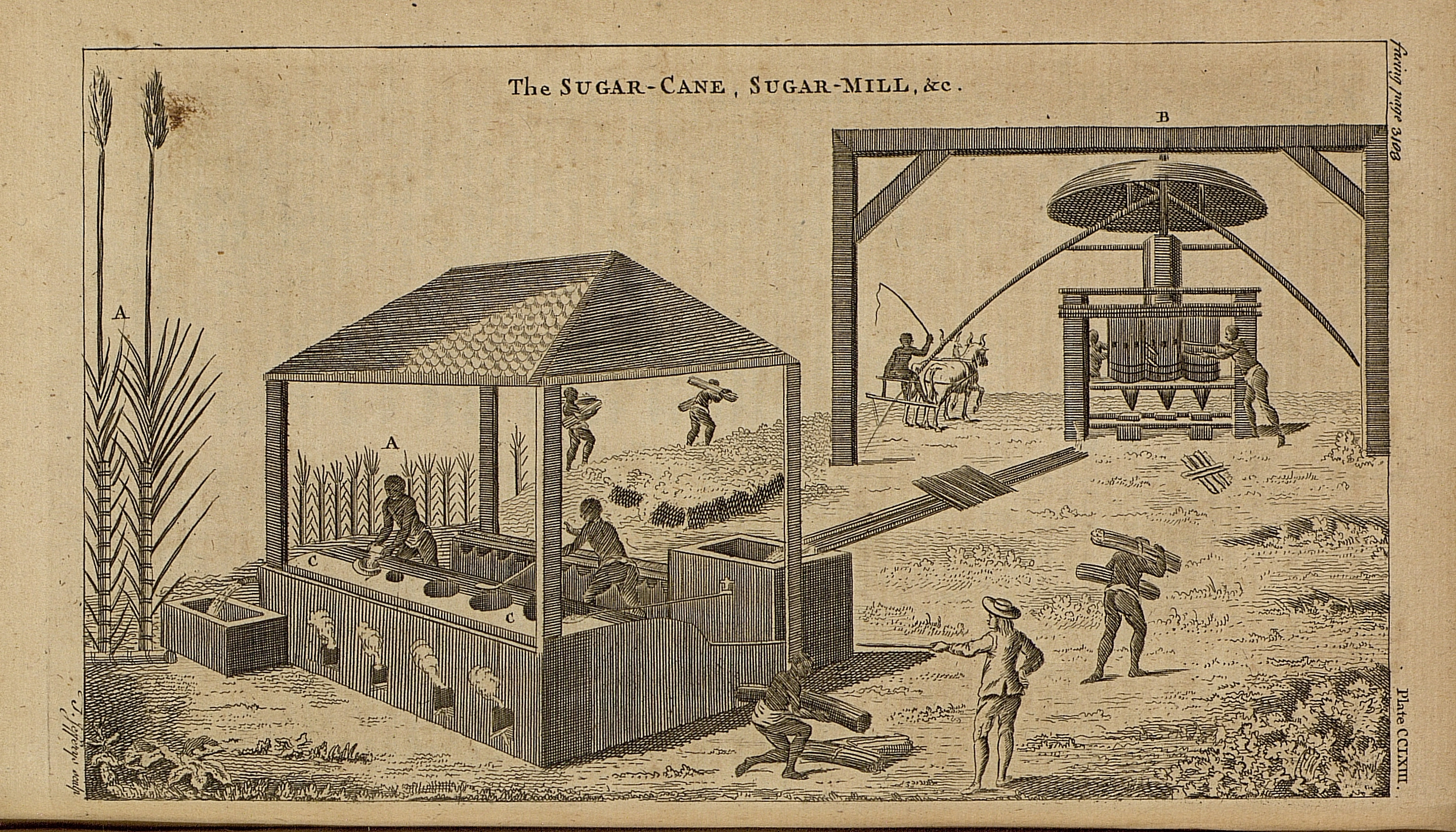 Autor: Society of Gentlemen Descripción bibliográfica: A new and complete dictionary of arts and sciences : comprehending all the branches of useful knowledge, ... Illustrated with above three hundred copper-plates, ... The whole extracted from the best authors in all languages / By a society of gentlemen. - The second edition, with many additions, and other improvements. - London : printed for W. Owen, 1763-64. - 4 v. (1064,1061-3506 p.), il.: lám. ; 8º Notas: Grab. calc. representando a Minerva: "S. Wale invt. et delin., C. Grignion sculp." Localización: Vea la ilustración en su contexto